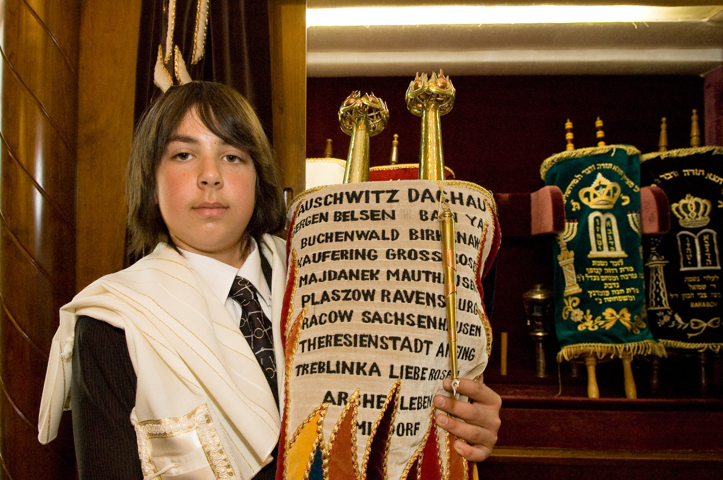 Jewish boy holding a scroll with the names of Holocaust death camps and slave labor camps at his Bar Mitzvah.